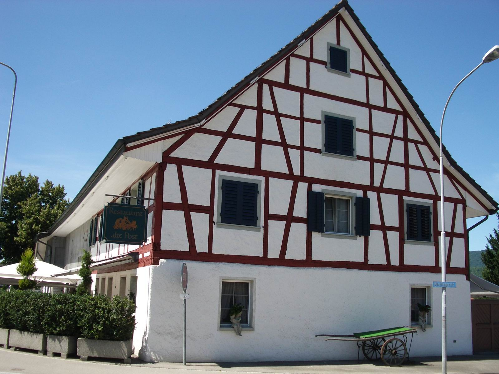 Hüttikon ZH, Switzerland